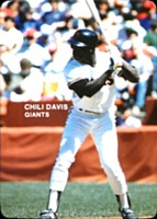 A baseball card of the San Francisco Giants' outfielder Chili Davis from the 1985 Mother's Cookies San Francisco Giants trading cards set. The card is numbered #2 in the set.